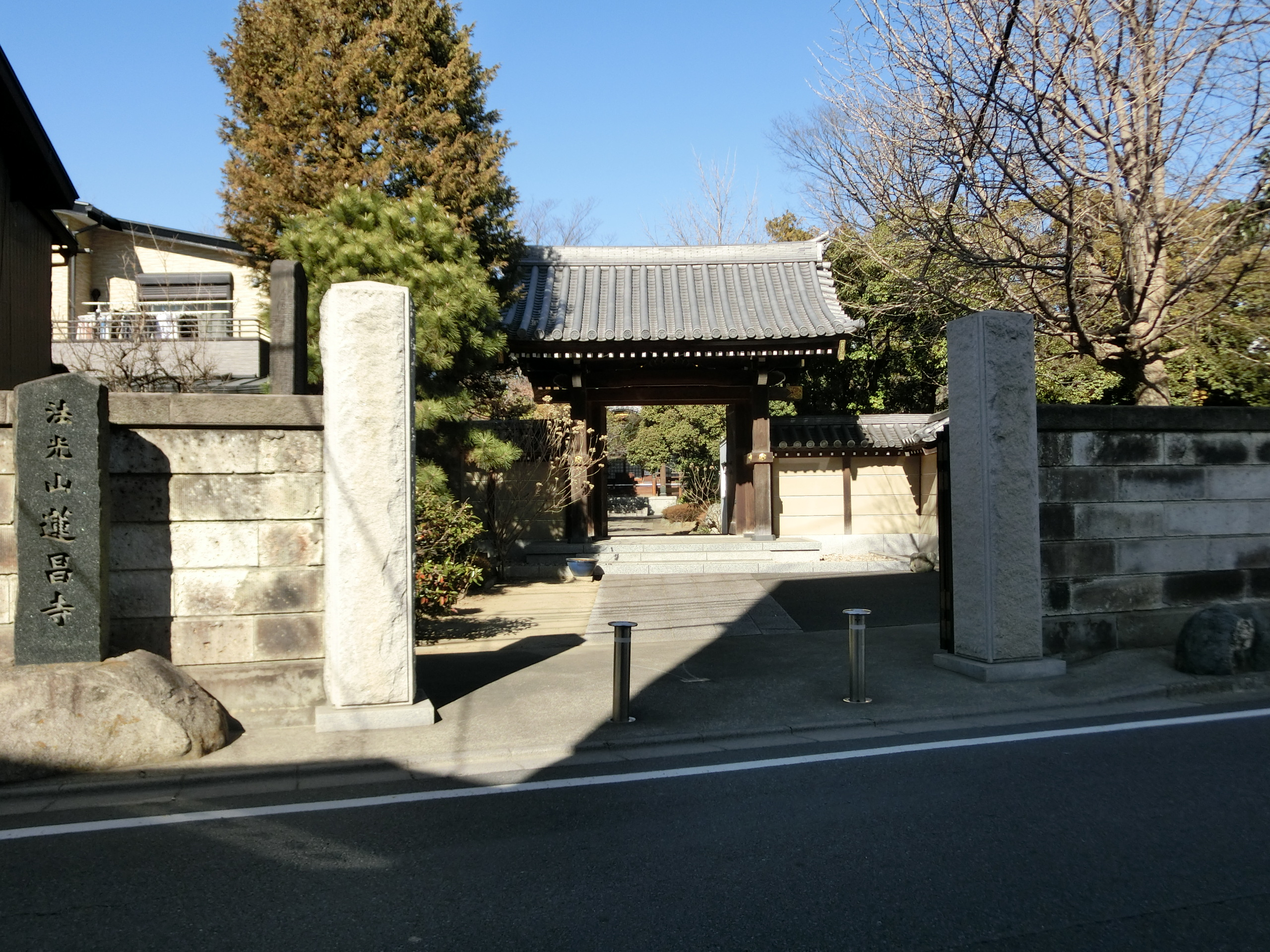 Rensho-ji (Katsushika)